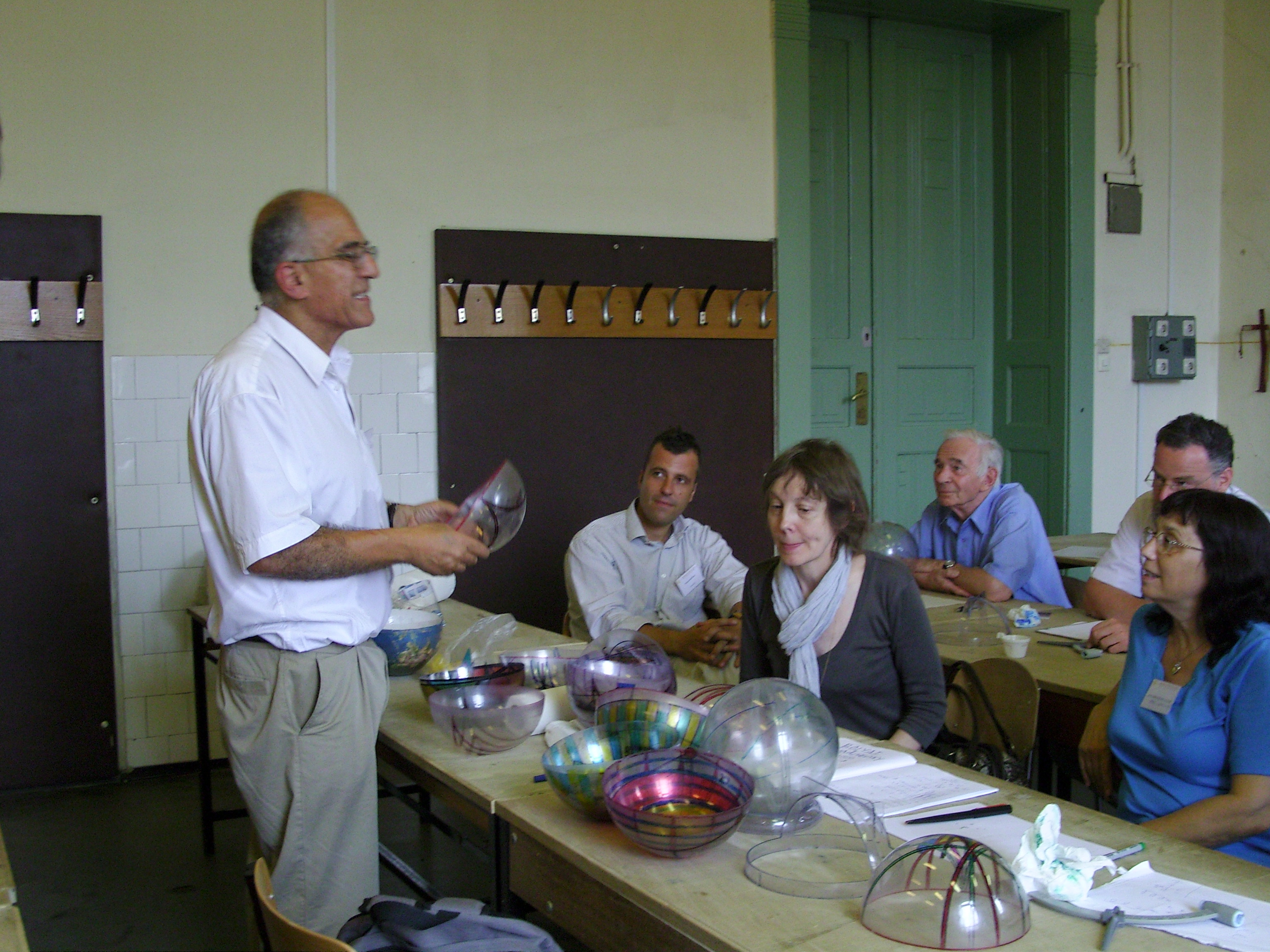 István Lénárt demonstrating Lénárt spheres at a confrence in Budapest.